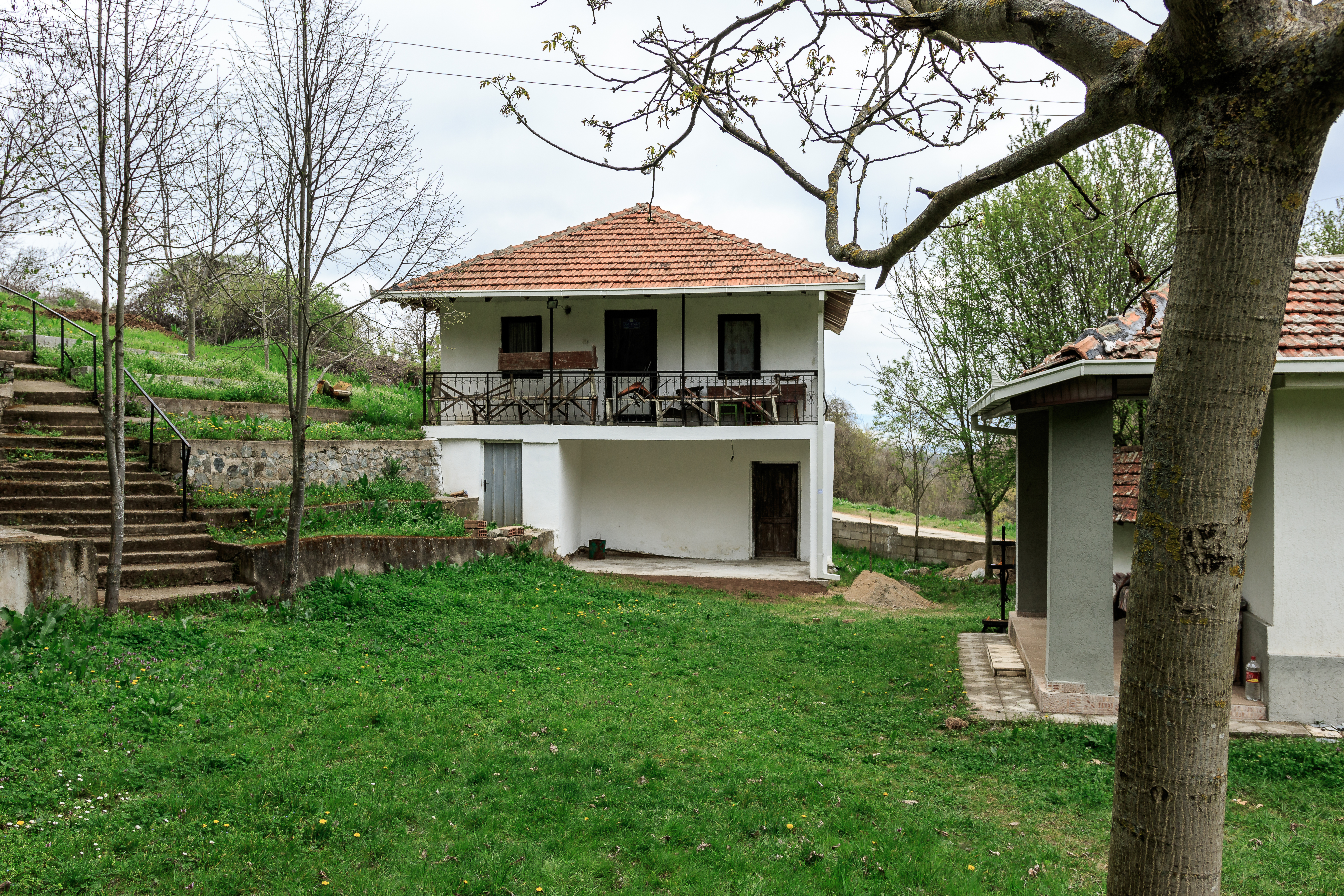 Other objects in the Church of the Theotokos in the village Piperovo